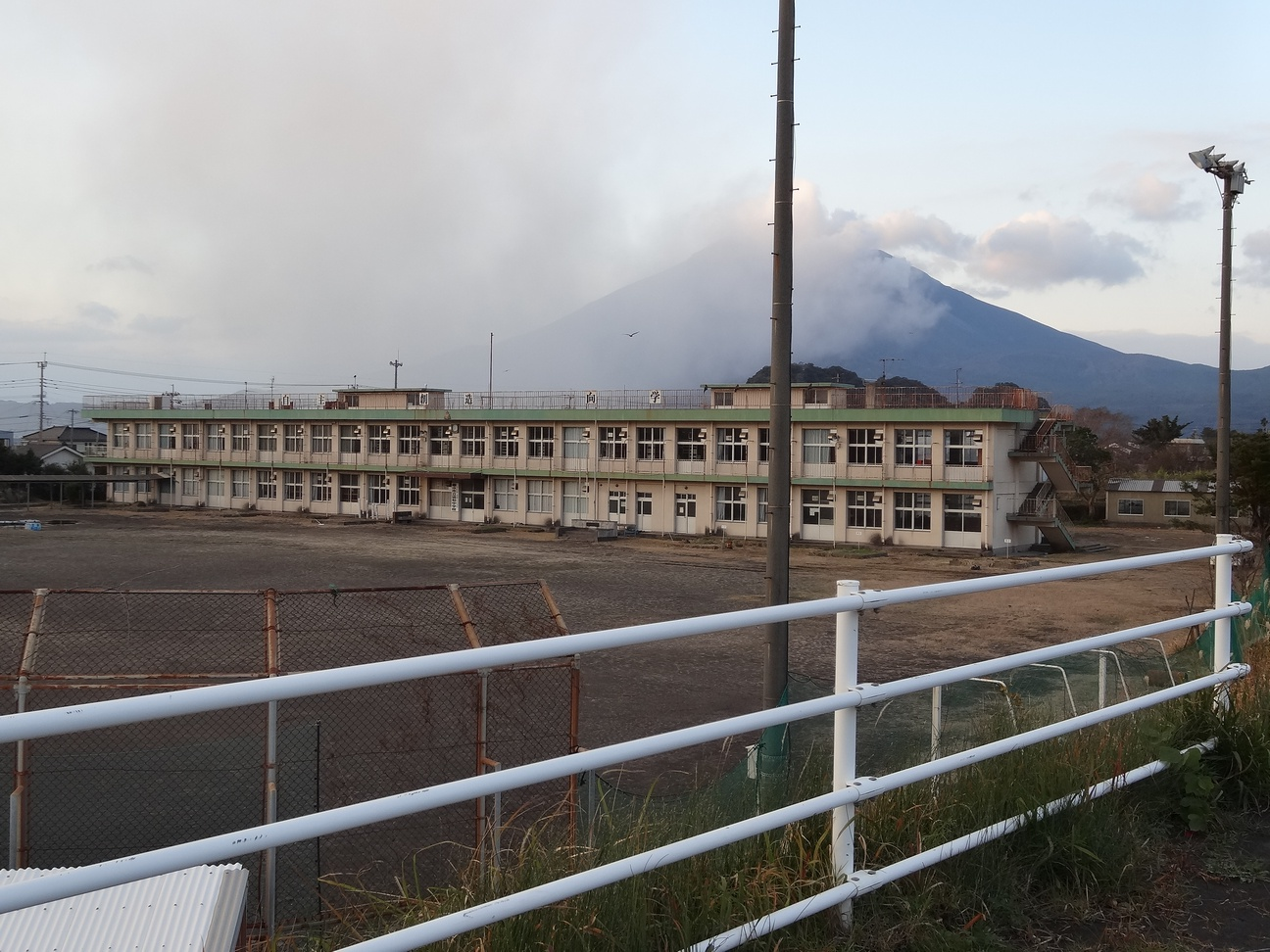 The Ruin of Kyowa Junior High School (Tarumizu City, Kagoshima, Japan)